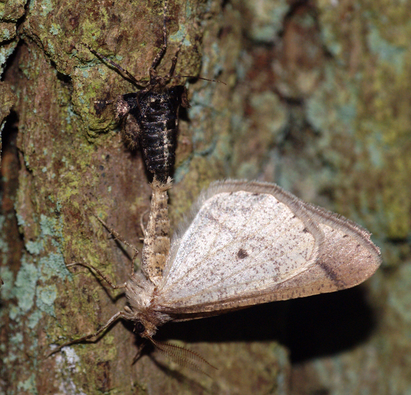 Field Trip - 160w MBT - 17/03/10 Female (top) Male (bottom)